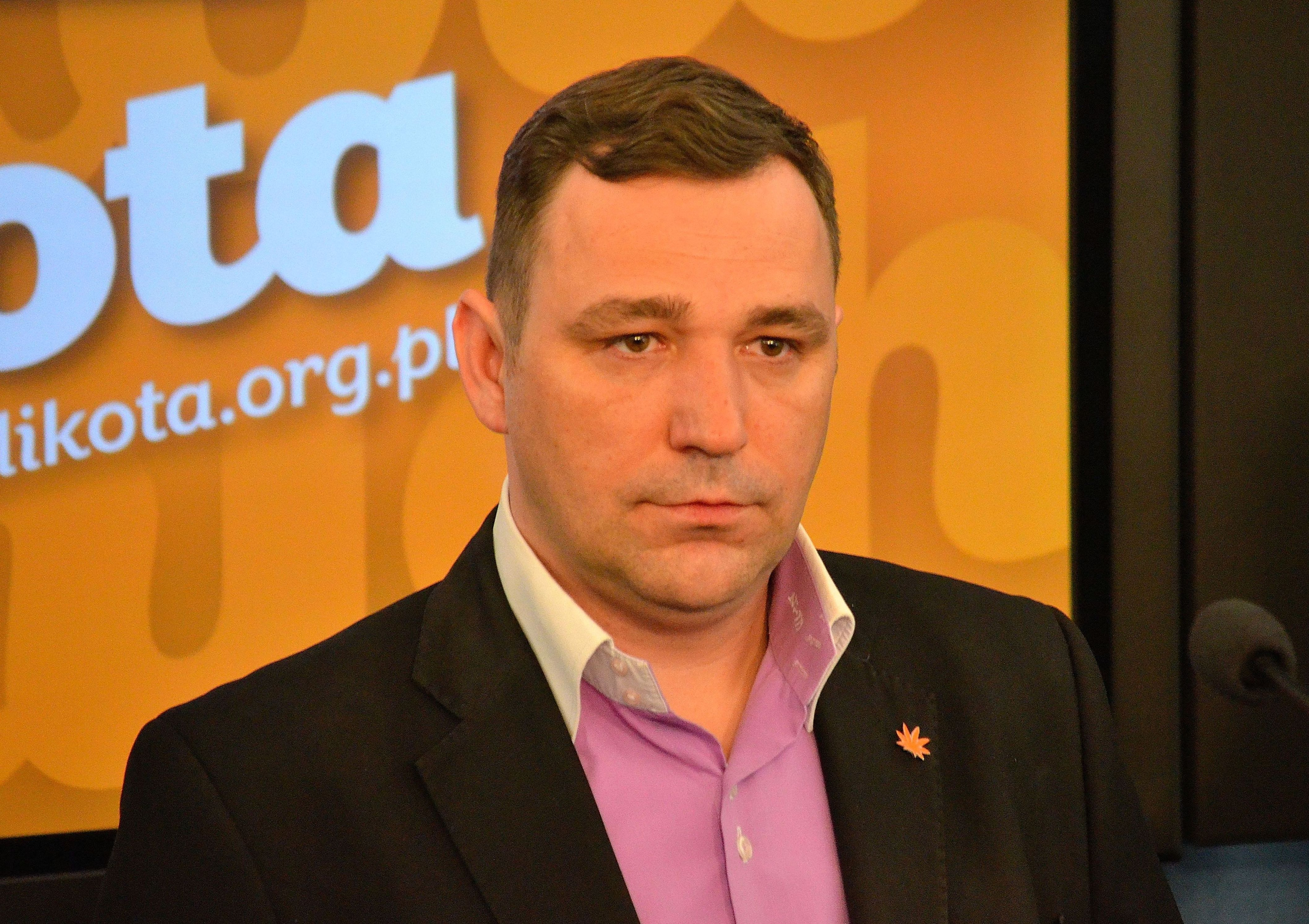 Polish MP Tomasz Makowski, member of party Your Movement